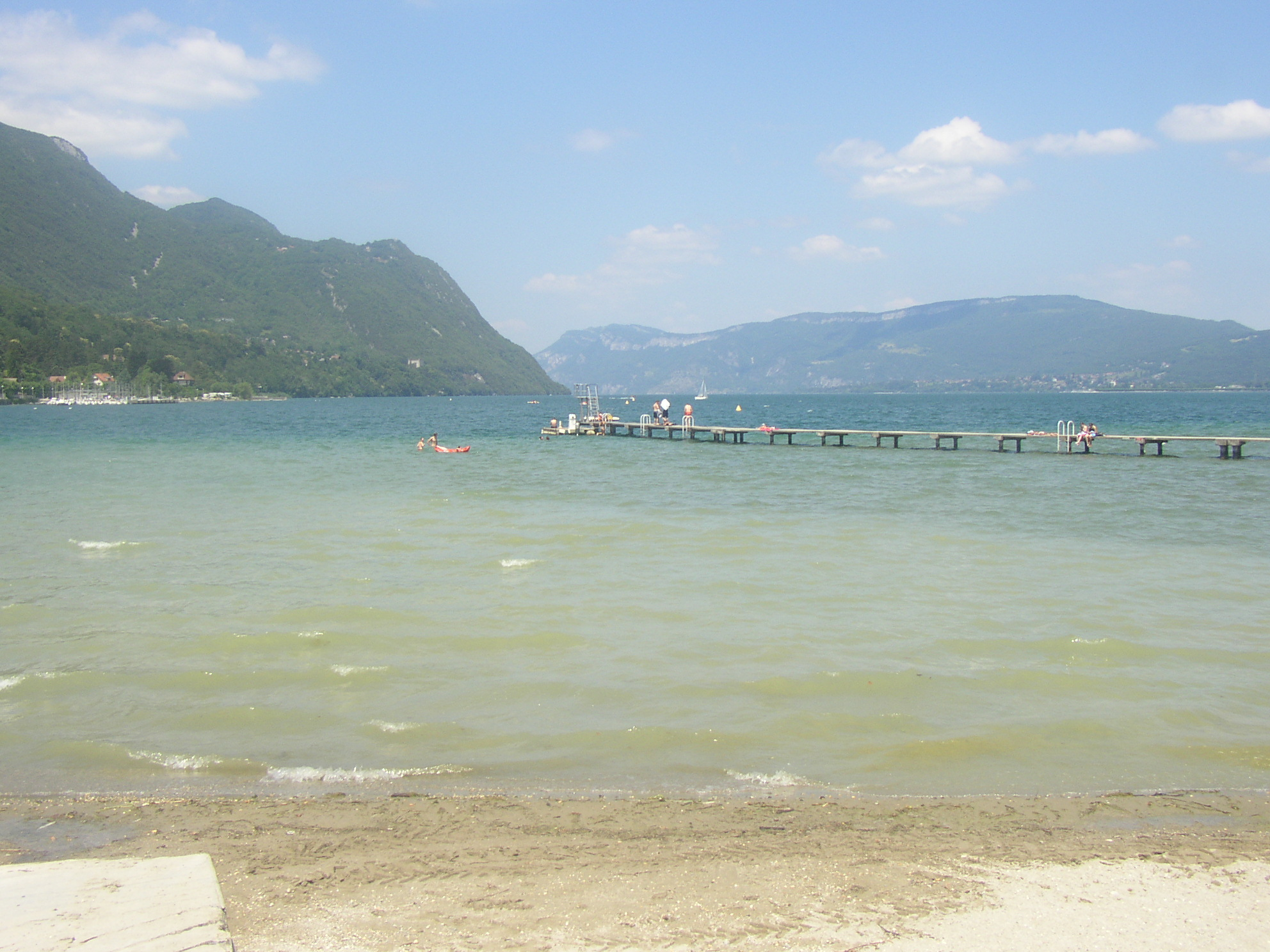 The Bourget Lake (France) seen on 06/23/06. Personal photo. Taken from the municipal beach of "Le Bourget-du-lac".